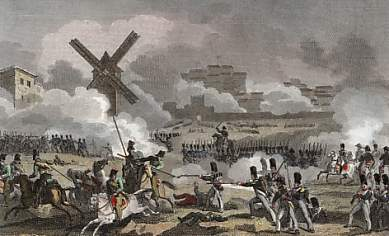 The battle of Smolensk (1812)